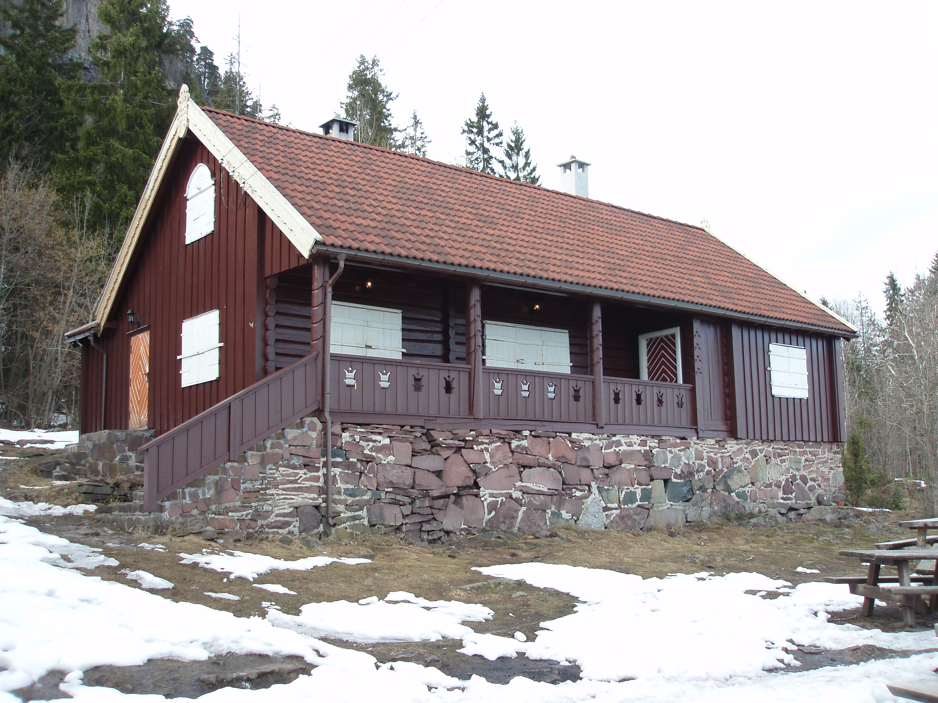 The KIF cabin at Kolsås in Bærum in Norway. The cabin won the prize for the best tourist cabin at an exhibition in Oslo in 1914. The cabin was disassembled and transported by train to Sandvika, and from there up to Kolsås where it was assembled and ready to be used in 1916. Today the cabin is run by the local Red Cross.